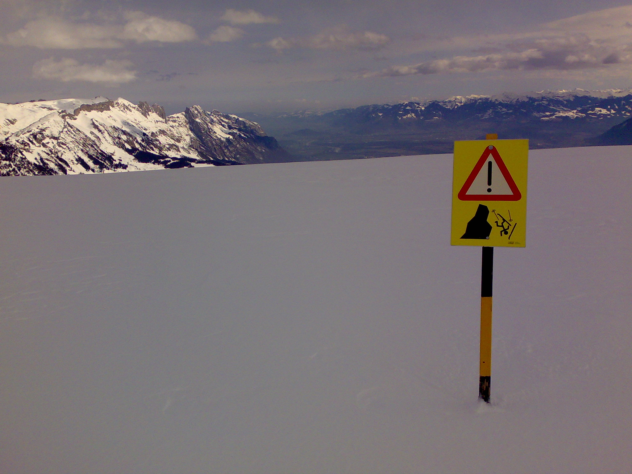 Warning! Precipice! in Wildhaus (St. Gallen, Switzerland) ski trail